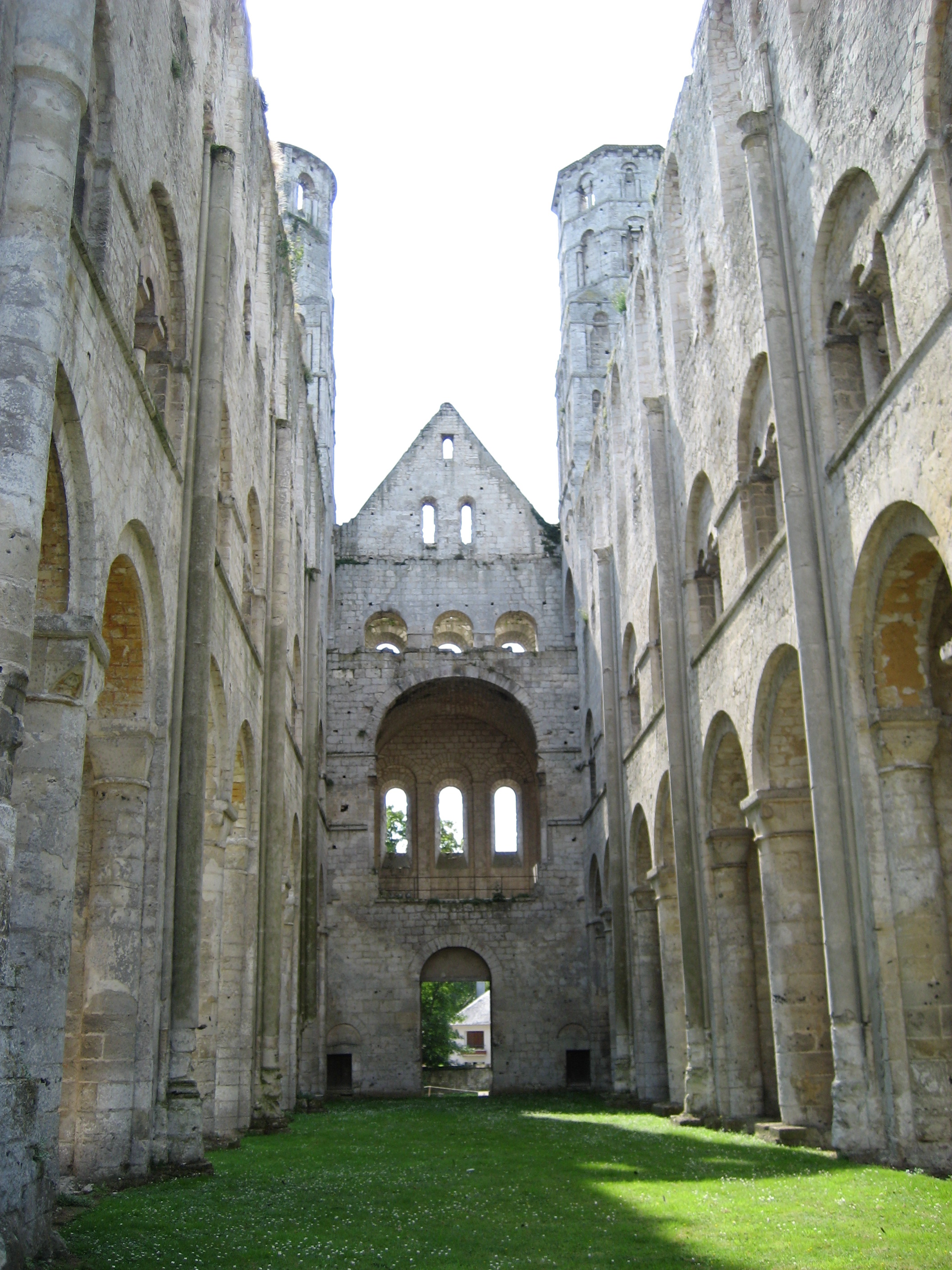 The nave of abbei